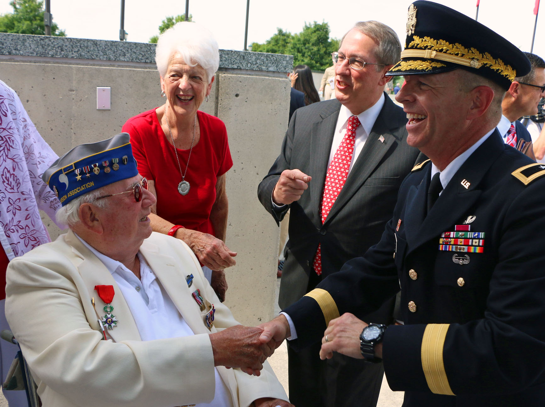 Senior Virginia and Maryland National Guard leaders and Soldiers from the 116th Infantry Brigade Combat Team pay tribute to the valor, fidelity and sacrifice of D-Day participants at the observance of the 70th anniversary of the Allied invasion of Normandy June 6, 2014, at the National D-Day Memorial in Bedford, Va. Brig. Gen. Timothy P. Williams, the Adjutant General of Virginia, and Brig. Gen. Blake C. Ortner, the Virginia National Guard Land Component Commander, read historical vignettes during the ceremony, and Brig. Gen. Timothy E. Gowen, Deputy 29th Infantry Division Commander - Maryland, joined members of the 29th Infantry Division Association in placing a memorial wreath for the division. Soldiers from the 116th IBCT escorted D-Day and World War II veterans throughout the ceremony. The Clifton Forge-based 29th Division Band provided ceremonial music for the event. Like 11 other Virginia communities, Bedford provided Soldiers to serve in Company A, 116th Infantry Regiment, 29th Infantry Division when the 116th was activated on Feb. 3, 1941. During the assault on Omaha Beach, 19 of the “Bedford Boys” of Company A died. Bedford’s population in 1944 was about 3,200, and proportionally the Bedford community suffered the nation’s most severe D-Day losses. Recognizing that Bedford represented both large and small communities whose citizen-Soldiers served on D-Day, Congress warranted the establishment of the National D-Day Memorial in Bedford, and this year’s event marked the 13th anniversary of the historic site’s dedication.